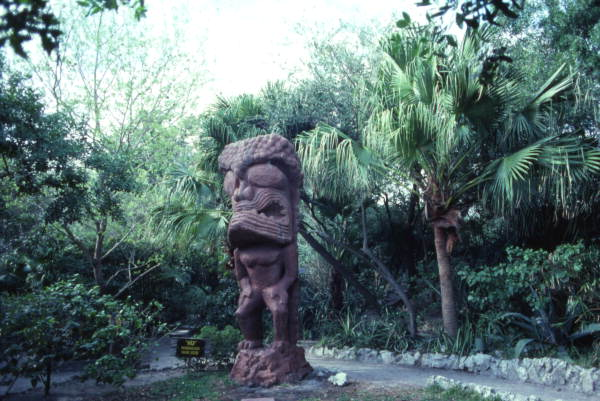 'Ku' Hawaiian War God at the Tiki Gardens tourist attraction in Indian Rocks Beach, Florida.